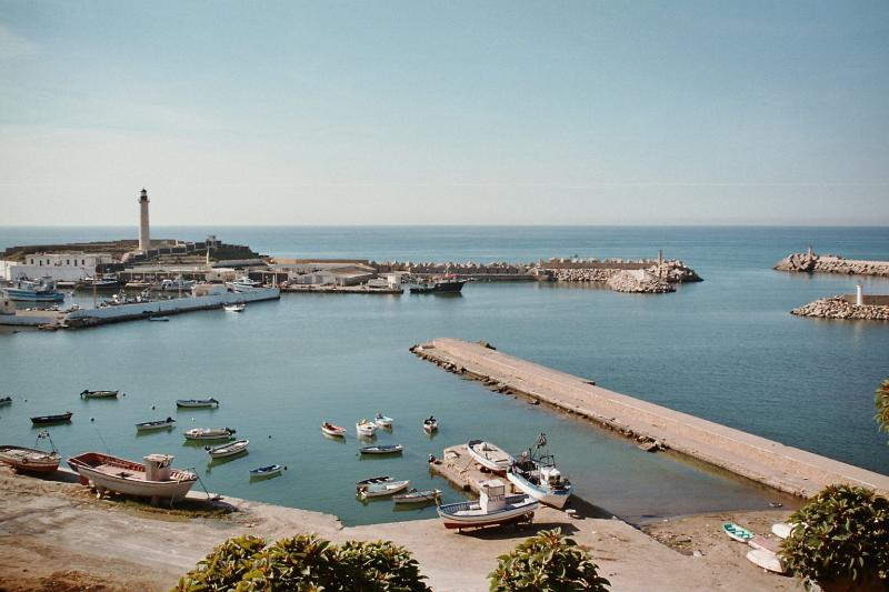 Cherchell le port